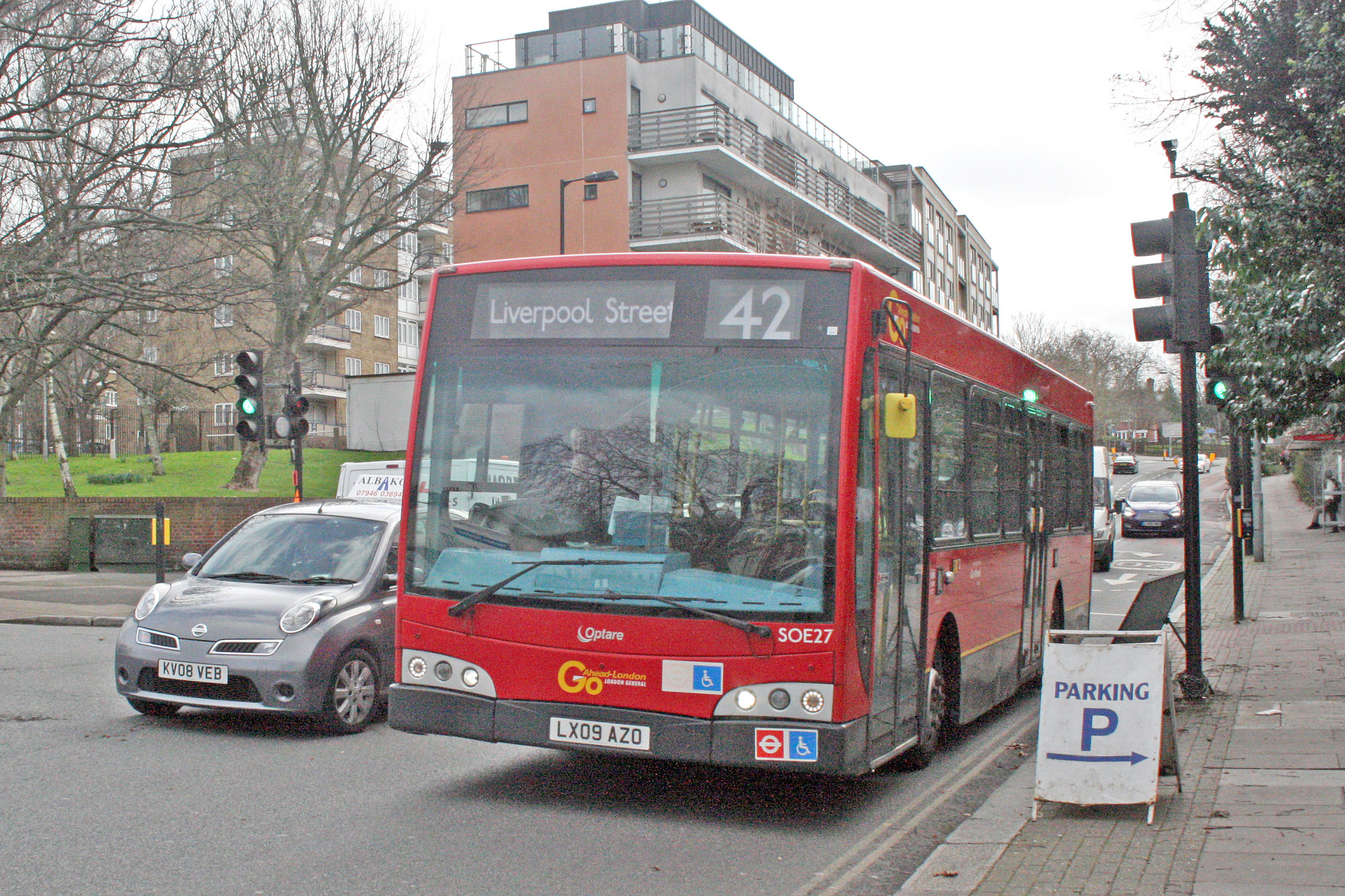 London Bus Route 42 at Denmark Hill